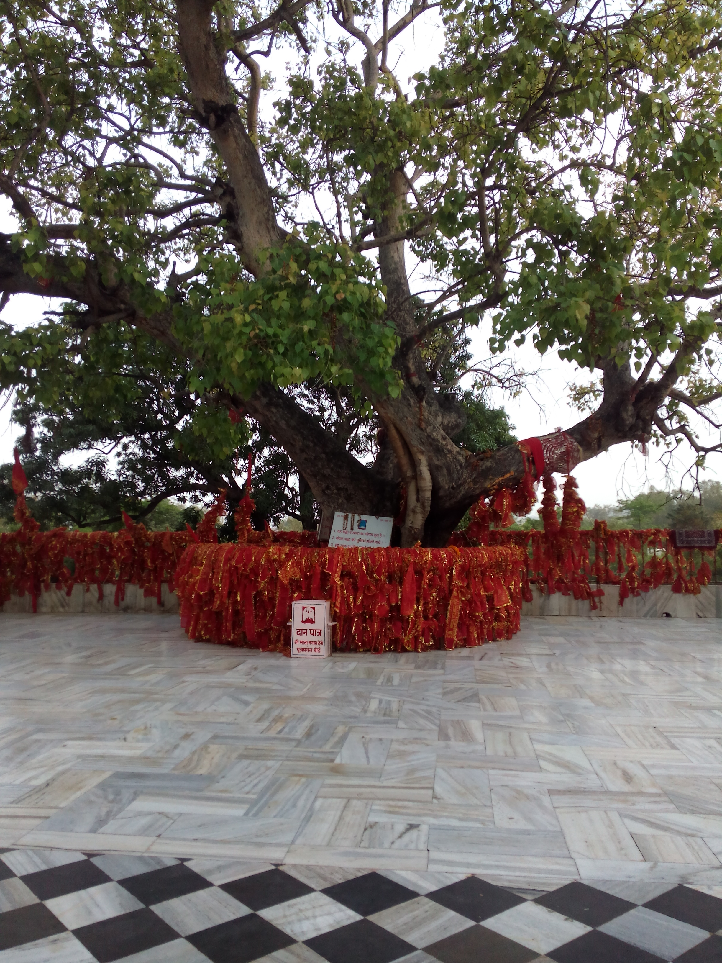 A sacred Peepal Tree at Mansa Devi Temple, Chandigarh, India